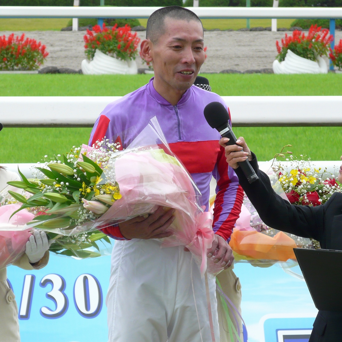 Koichi-Idetsu20101030